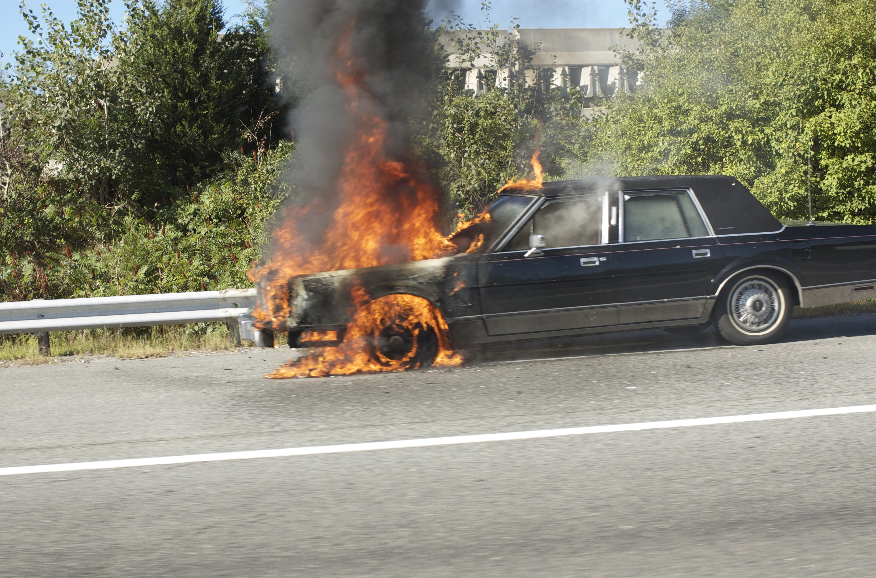 A car engine fire on the Massachusetts Turnpike (I-90).